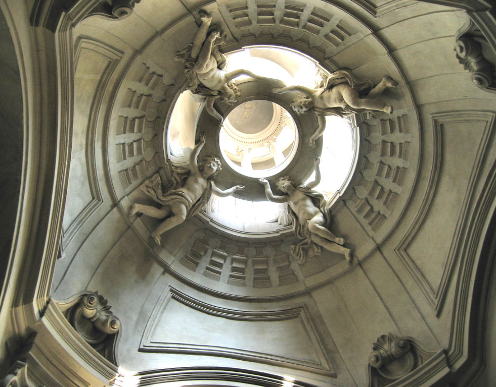 Antonio Gherardi - Cappella Avila, Santa Maria in Trastevere, Rome. Picture taken by Torvindus.